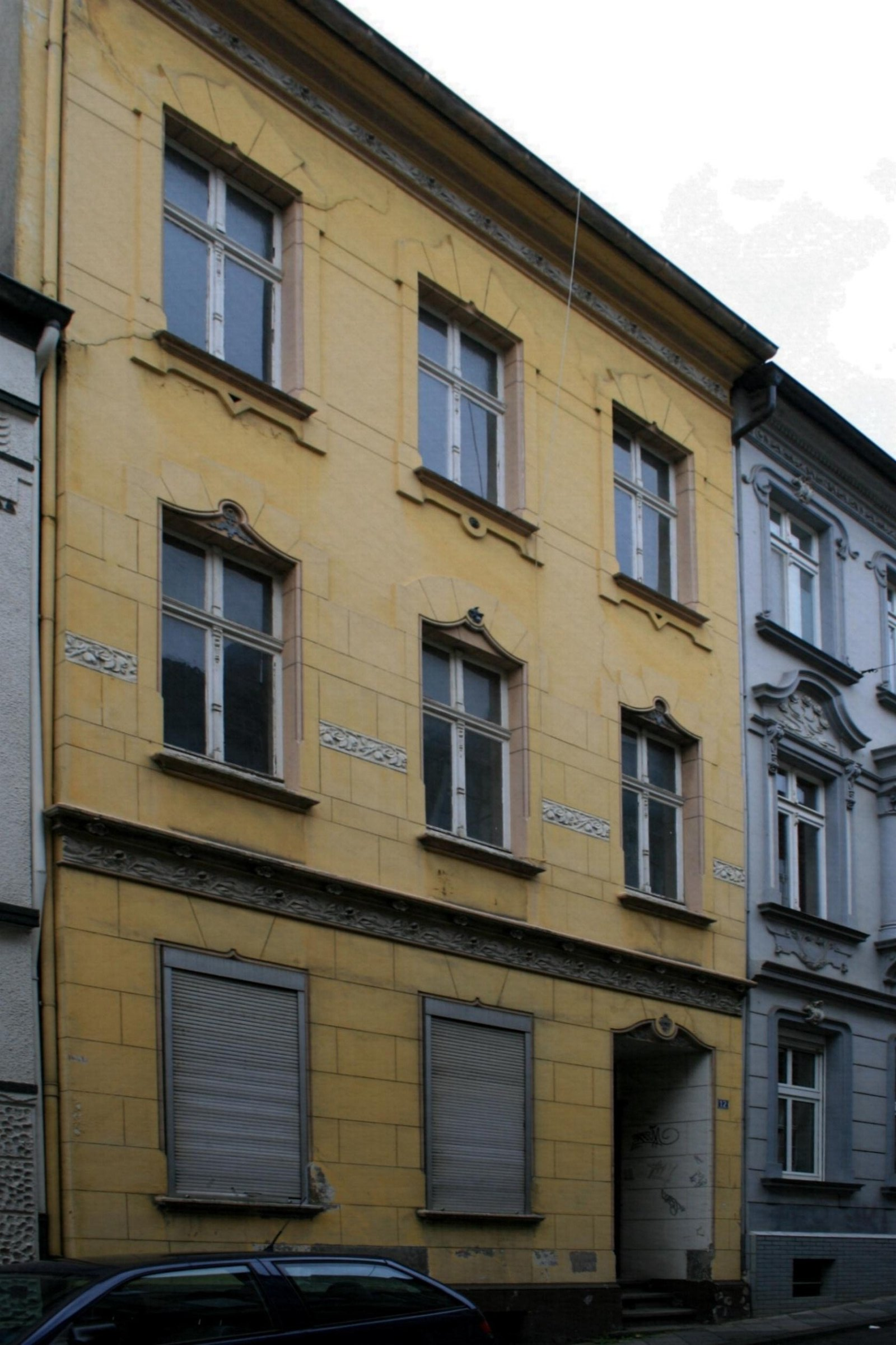 Cultural heritage monument No. L 023 in Mönchengladbach